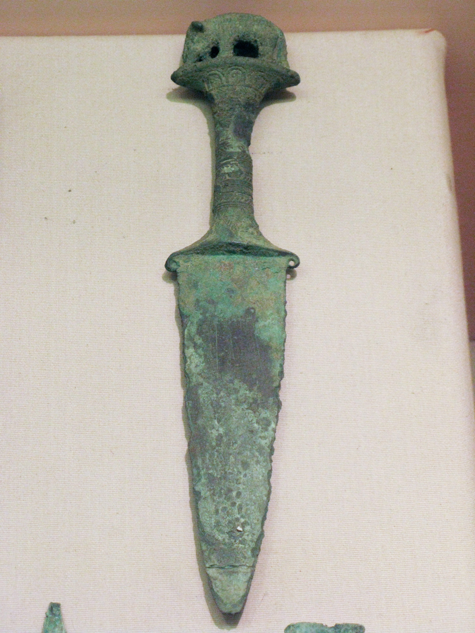 Bronze weapon, Sa Huynh Culture